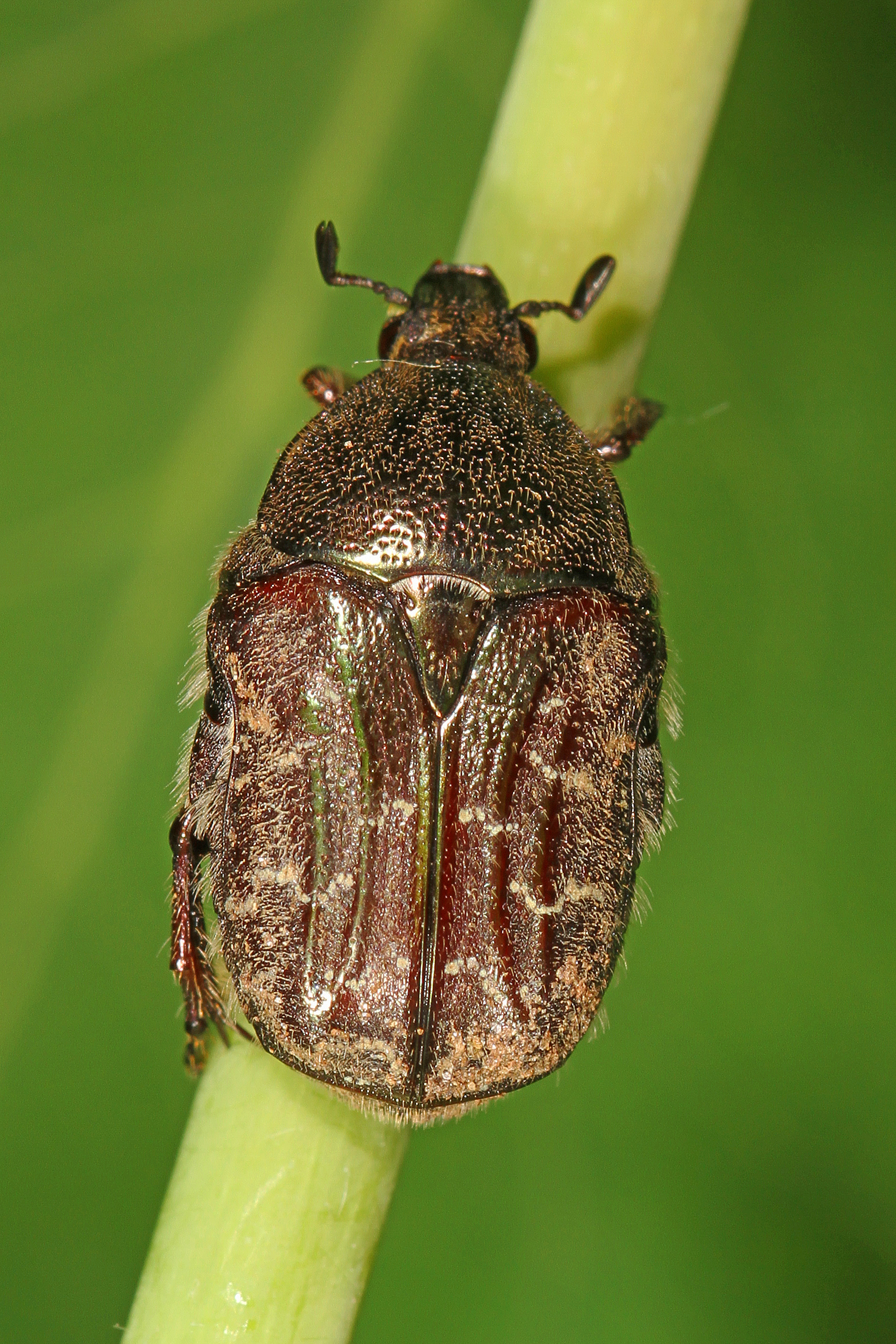 Dark Flower Scarab Beetle - Euphoria sepulcralis, Julie Metz Wetlands, Woodbridge, Virginia